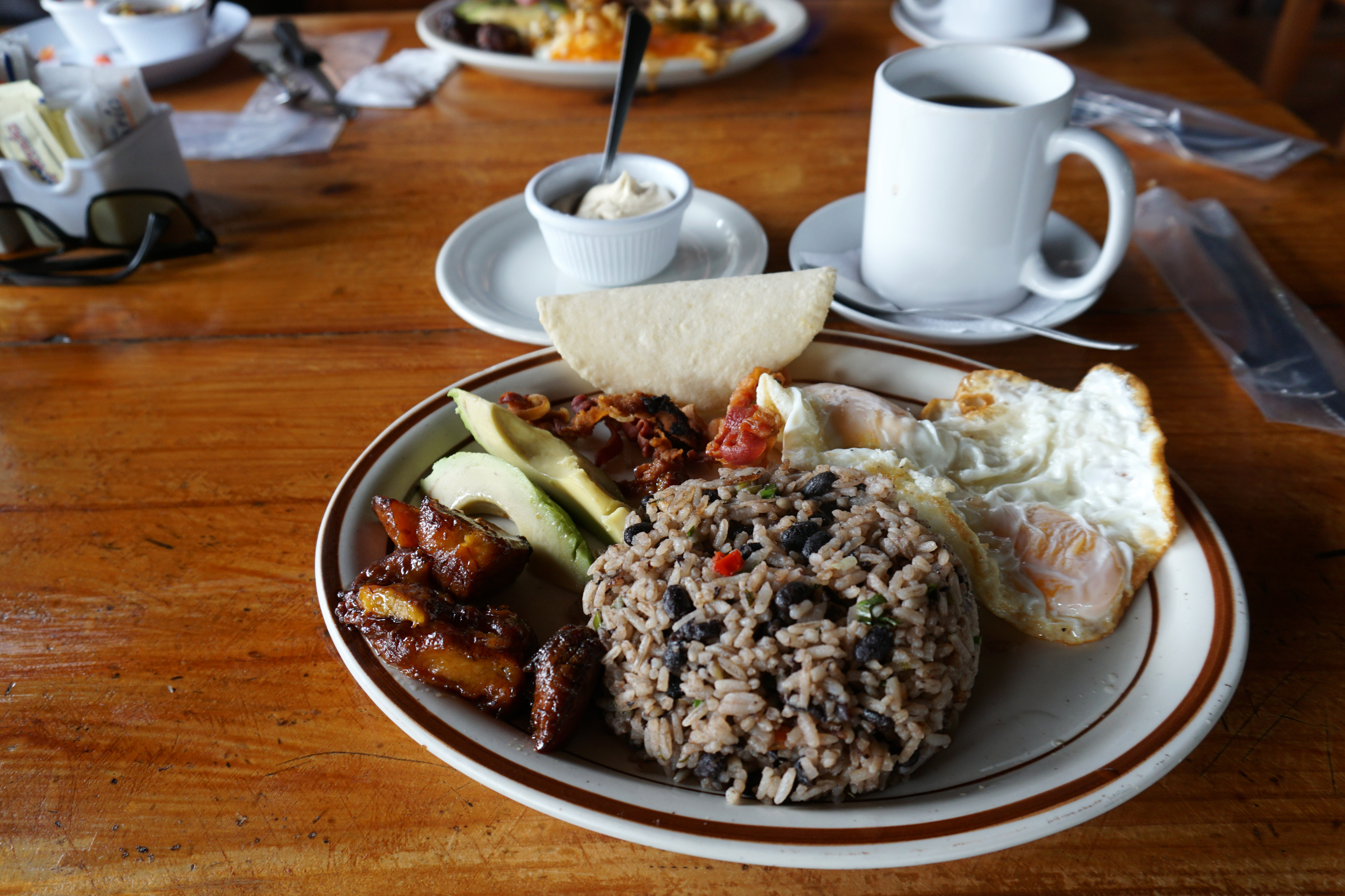 Gallo pinto is the typical breakfast dish of Costa Rica. Gallo pinto is a mixture of rice and black beans, as shown served also with fried eggs, plantain, bacon, avocado, corn tortillas and sour cream (natilla).